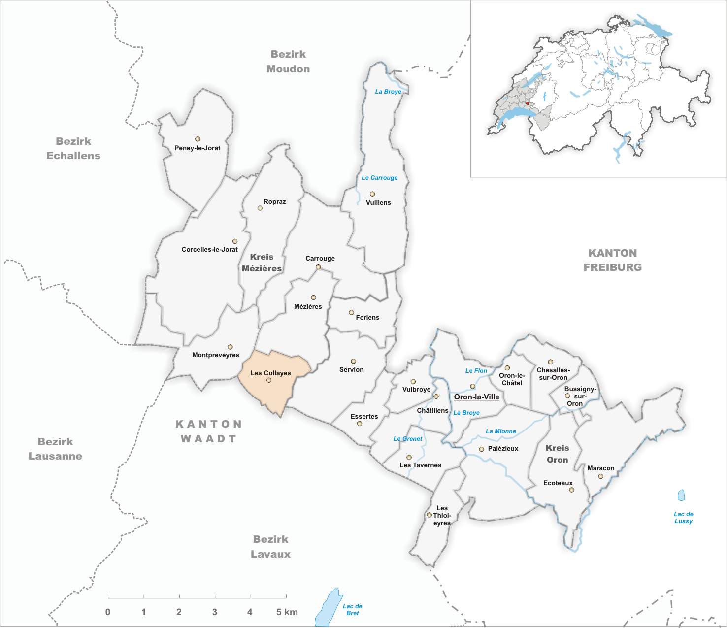 Municipality Les Cullayes